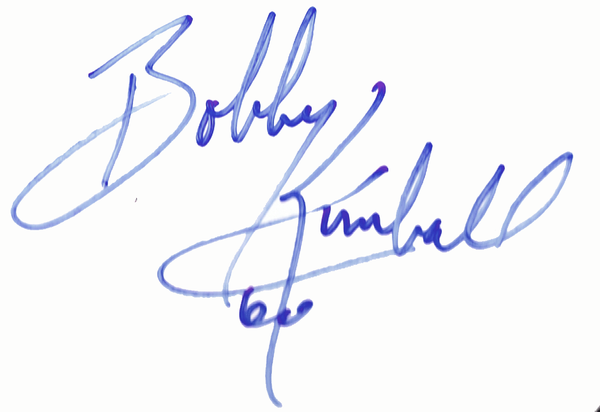 scanned autograph from Bobby Kimball while on Toto's European Tour in 1982